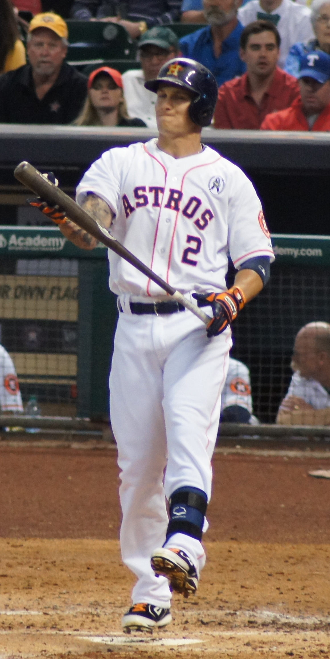 Brandon Barnes opening day for Houston Astros on 2013